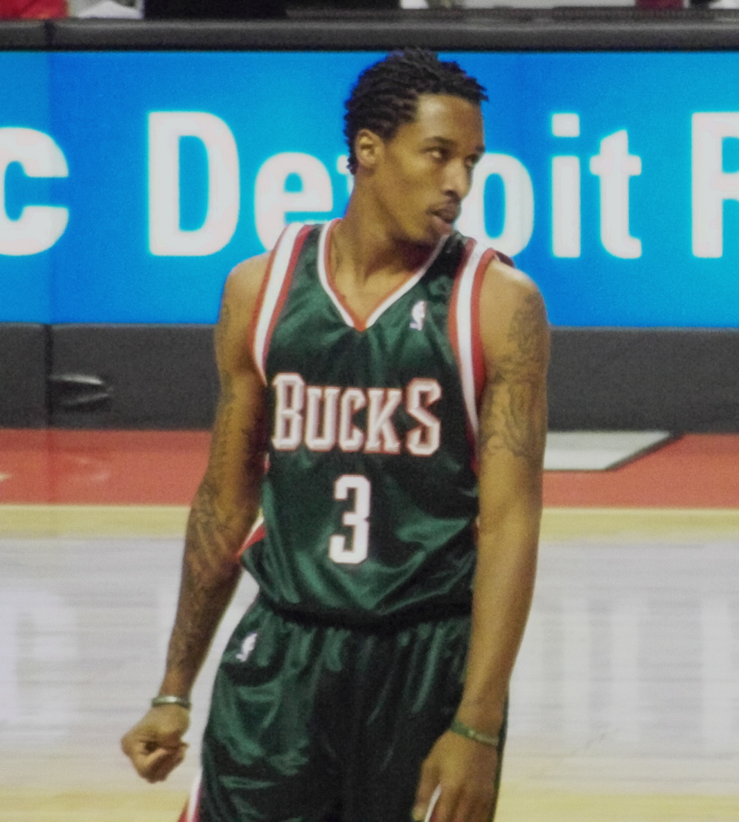 Brandon Jennings of the Milwaukee Bucks during a game against the Detroit Pistons